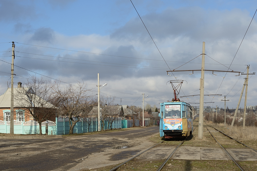 KTM-5 085 in Druzhkivka